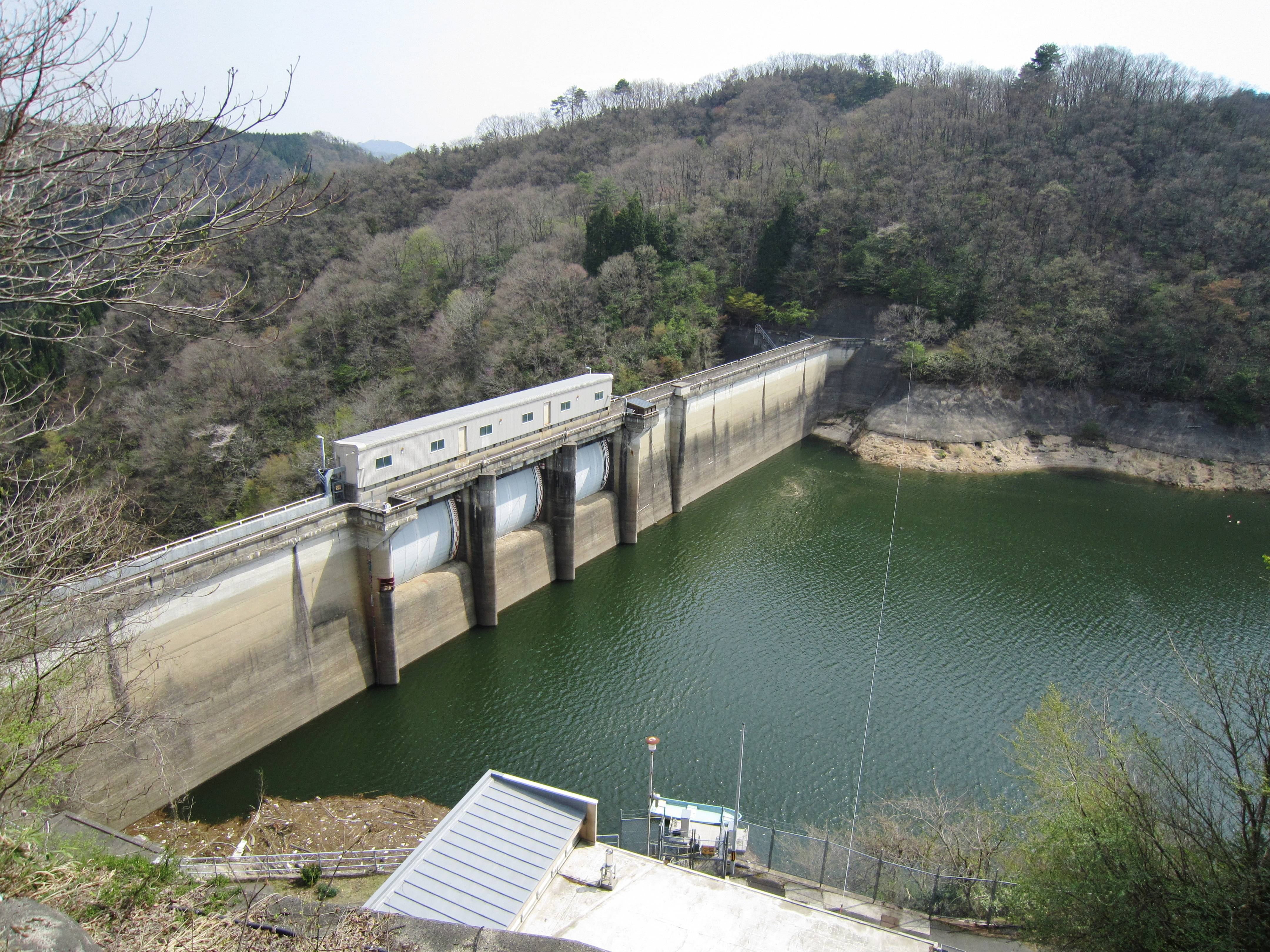 Kijima Dam lake.